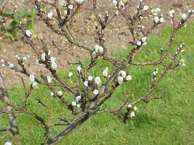 Species: Salix hastata Family: Salicaceae Image No. 3